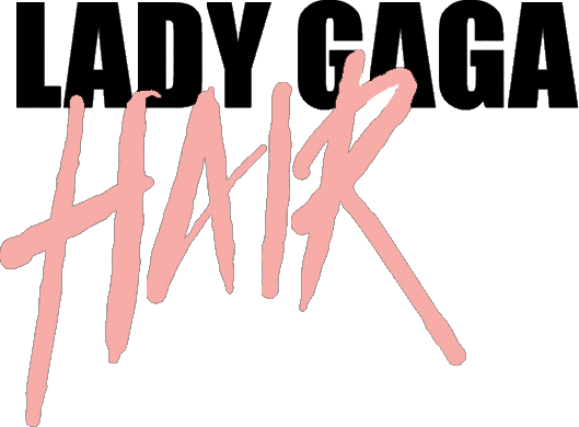 Logo of Lady Gaga's song Hair